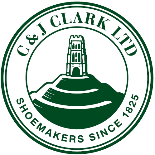 C & J Clark Stamp depicting Glastonbury Tor and the words 'Shoemakers since 1825'